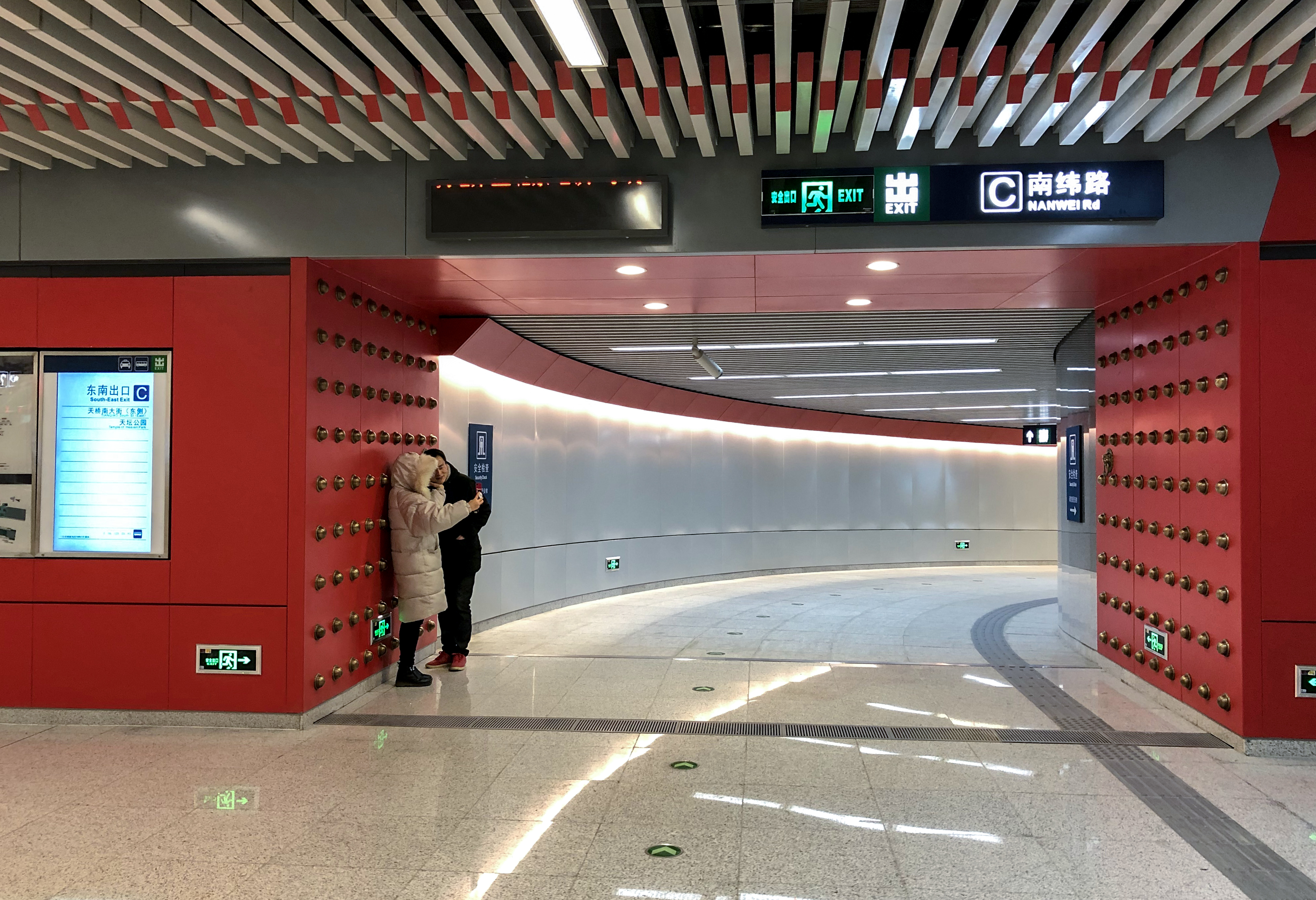 This leads to the west gate of the Temple of Heaven.